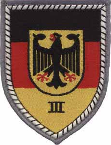 coat of arms Wehrberichskommando III (WBK III) of the Bundeswehr (Armed Forces of the Federal Republic of Germany). → Remarks on naming and categorization scheme